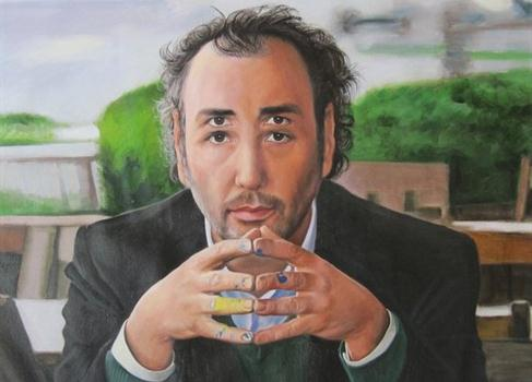 Genco Gülan, Artist with four Eyes. 2011. Oil on Canvas. 100cm * 70cm.